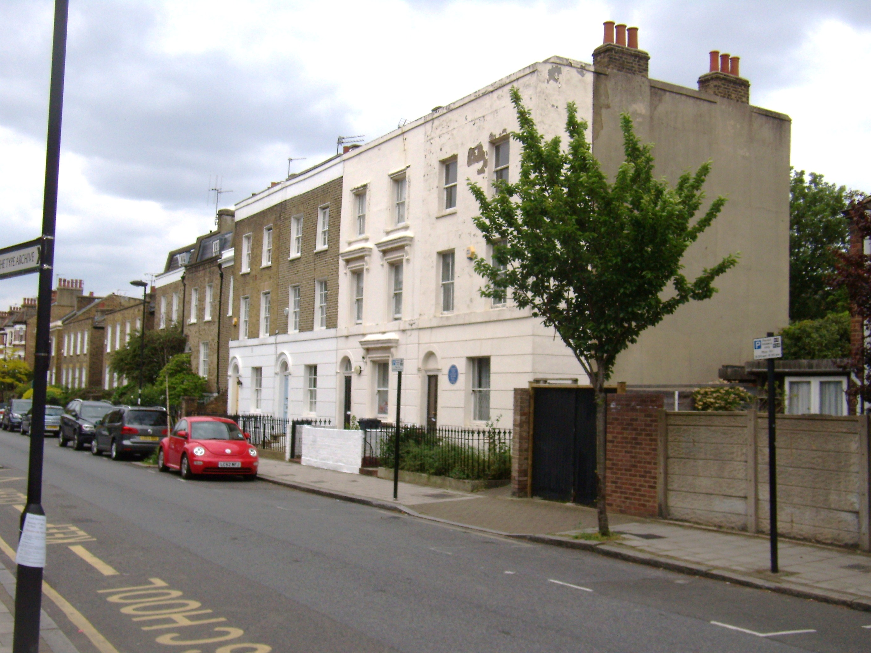 Houses in Hackford Road, London, SW9, home in 1873 to 1874 for Vincent van Gogh